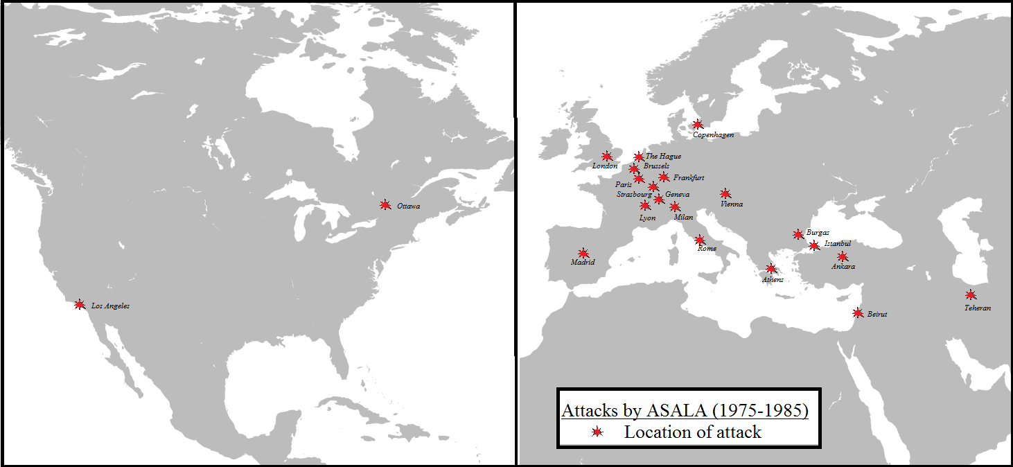 Locations of ASALA attacks during 1975-1985. References:[1]